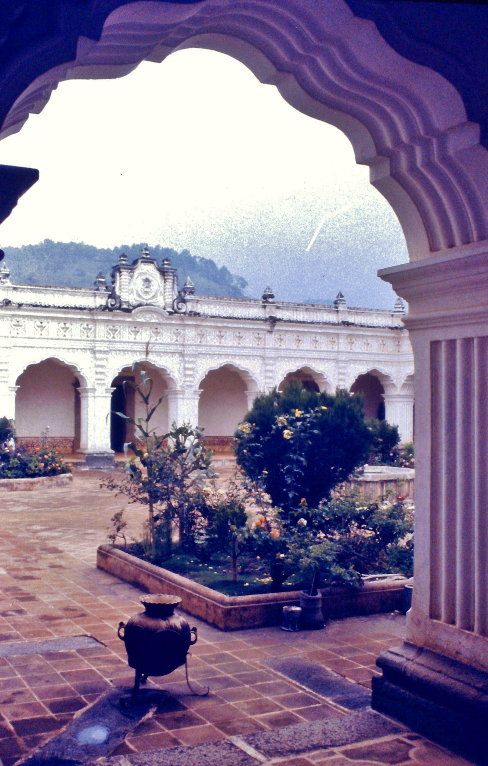 Antigua university courtyard